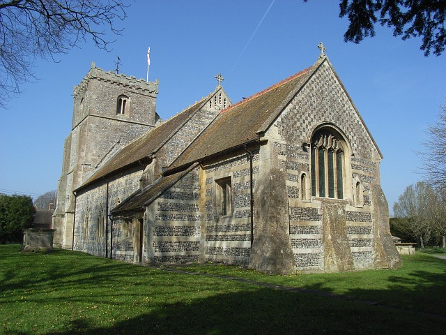 St Mary's, Upavon Norman and Early English.